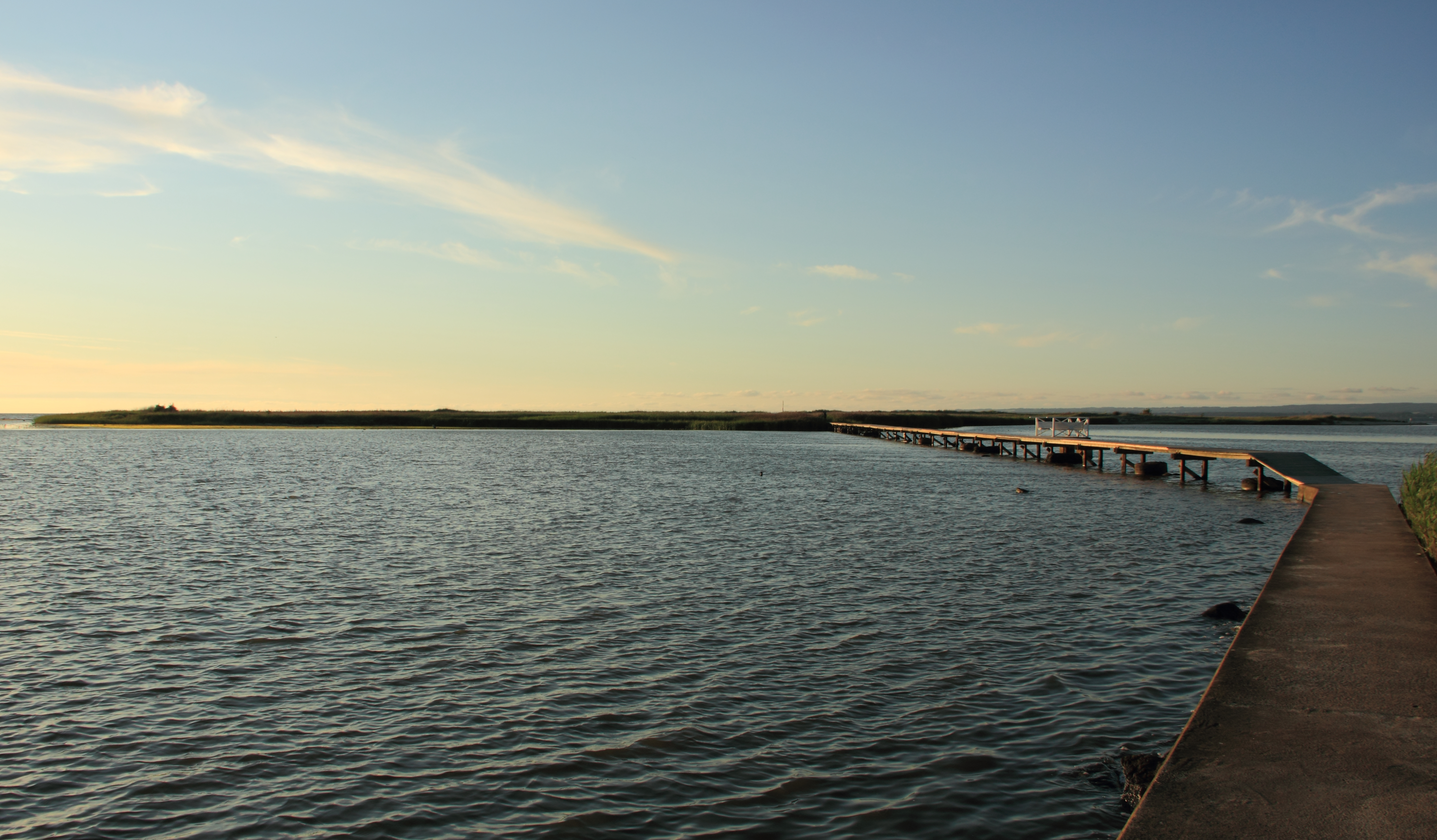 The small bridge to Sandön at Utvälinge, Sweden